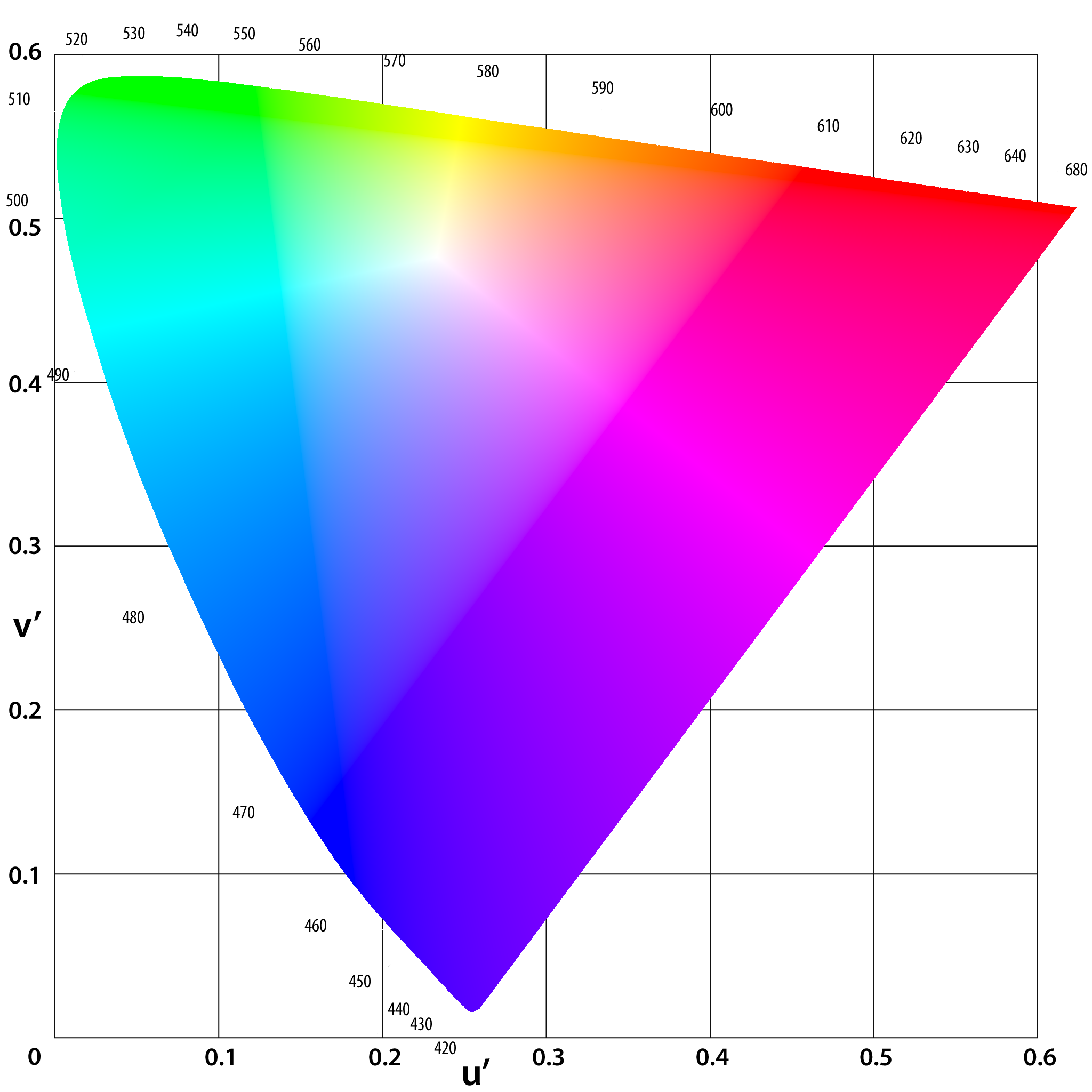 (u′,v′) chromaticity diagram from CIELUV using the 1931 standard observer.